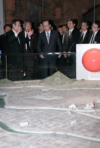 Tadatoshi Akiba, Mayor of Hiroshima City, explained to Yasuo Fukuda, Prime Minister, at Hiroshima Peace Memorial Museum in Hiroshima City, Hiroshima Prefecture on August 6, 2008.